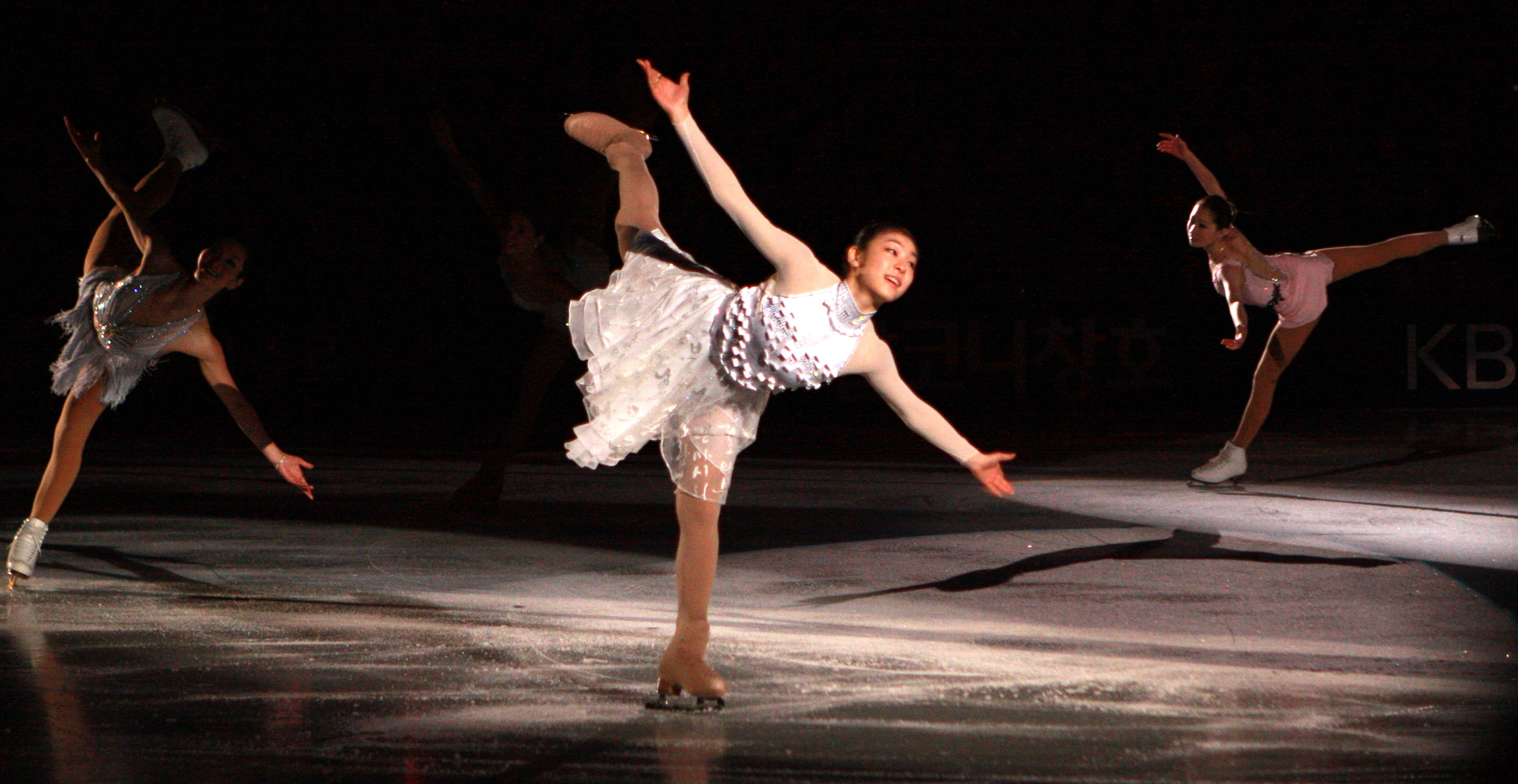 Ladies perform an outside edage arabesque spiral at the 2009 Festa On Ice